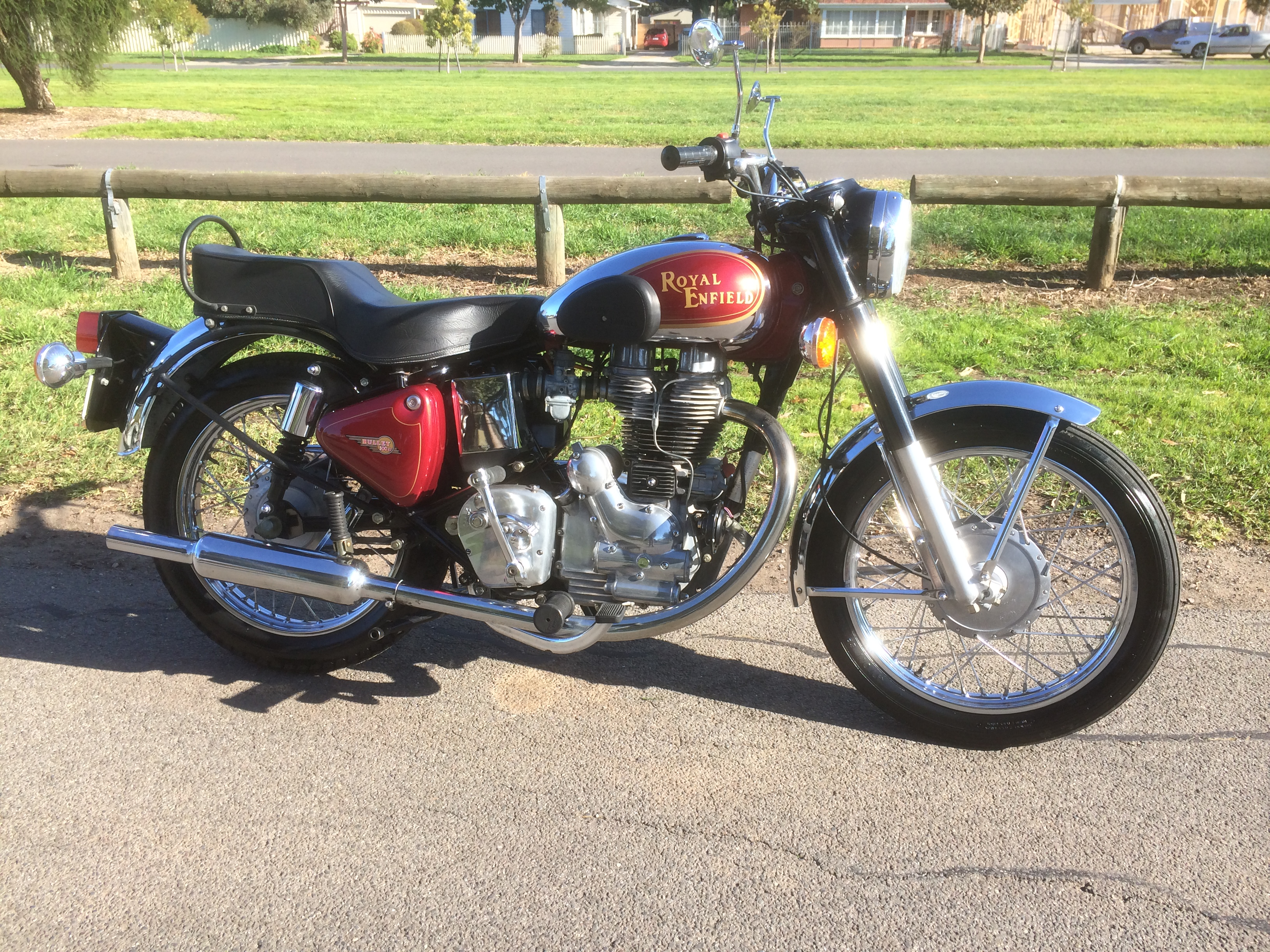 Royal Enfield Bullet 500 - 2002 model. Left side shifter. Iron - Casting engine.